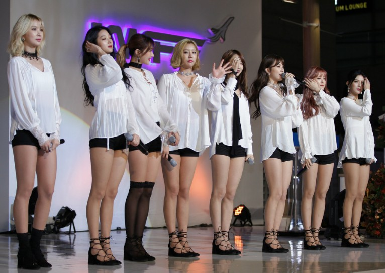 Nine Muses at Korean Wave Fashion Festival, 28 November 2015